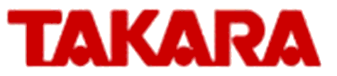 Takara's logo